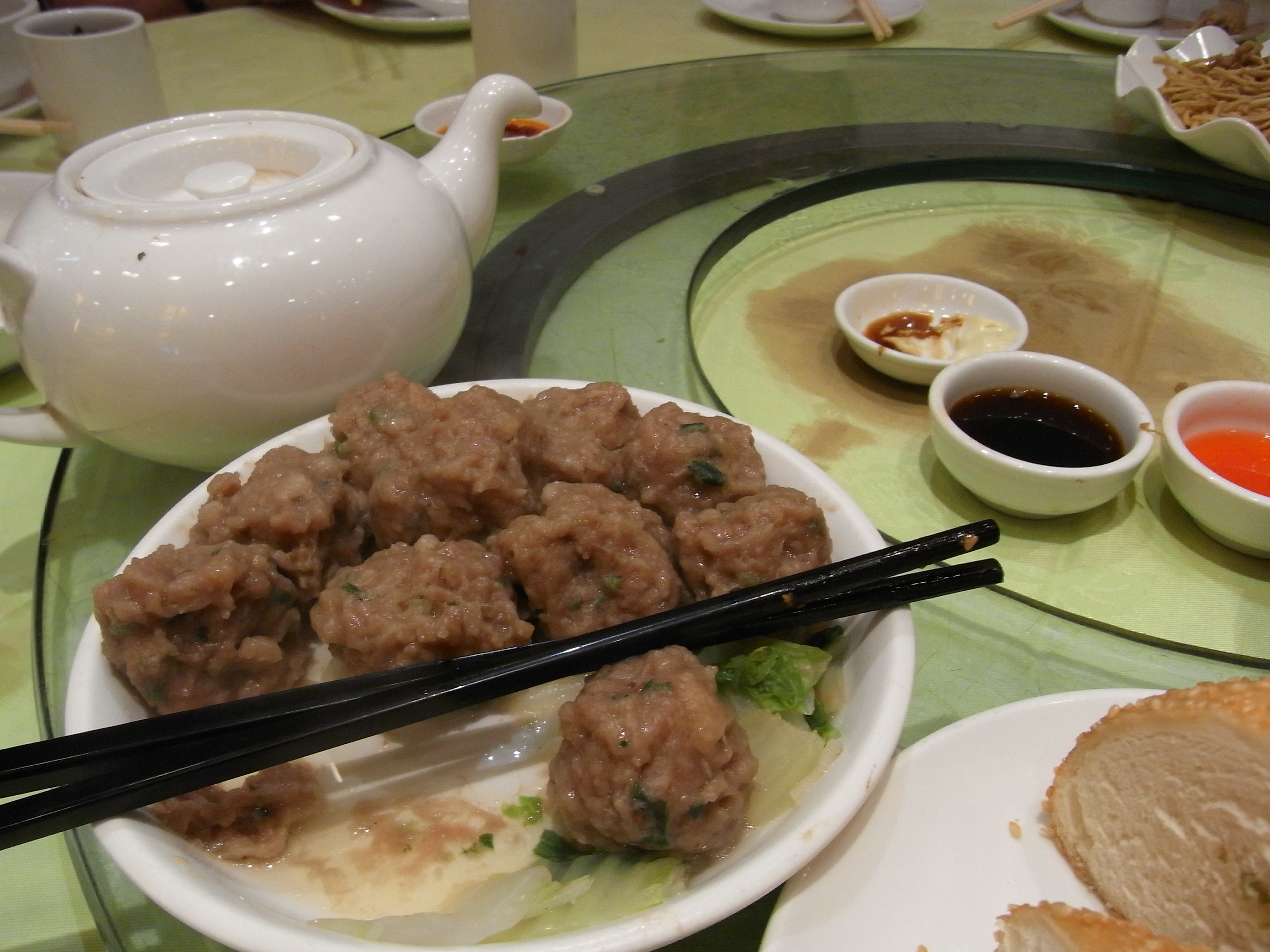 小肥羊, Little Sheep Group, Tsim Sha Tsui, Hong Kong